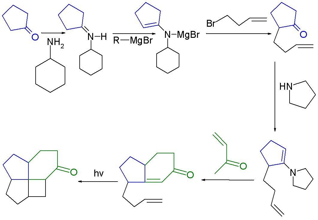 Fenstrane Synthesis 1972